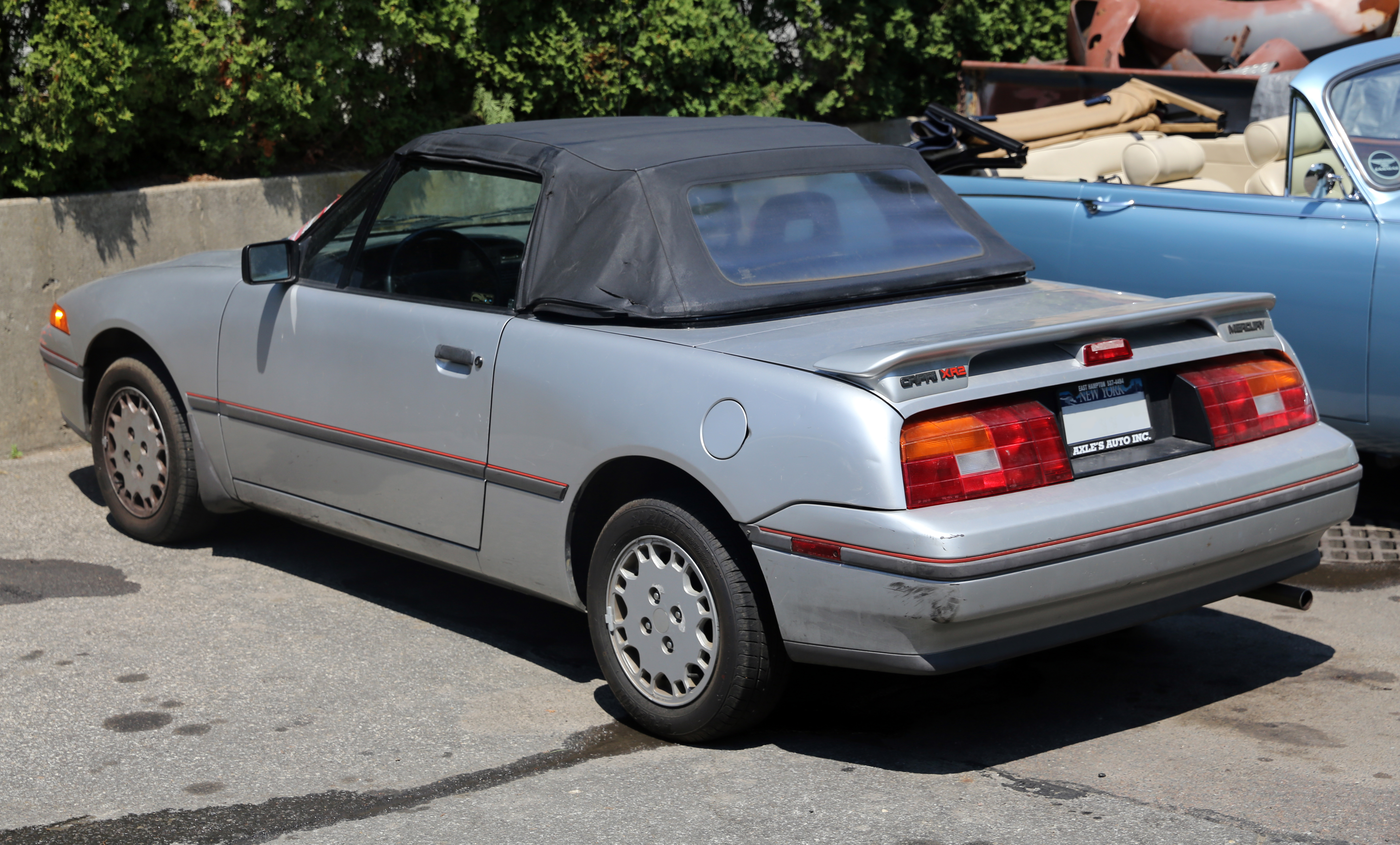 A 1991 Mercury Capri XR2 - a turbocharged roadster should be more impressive...